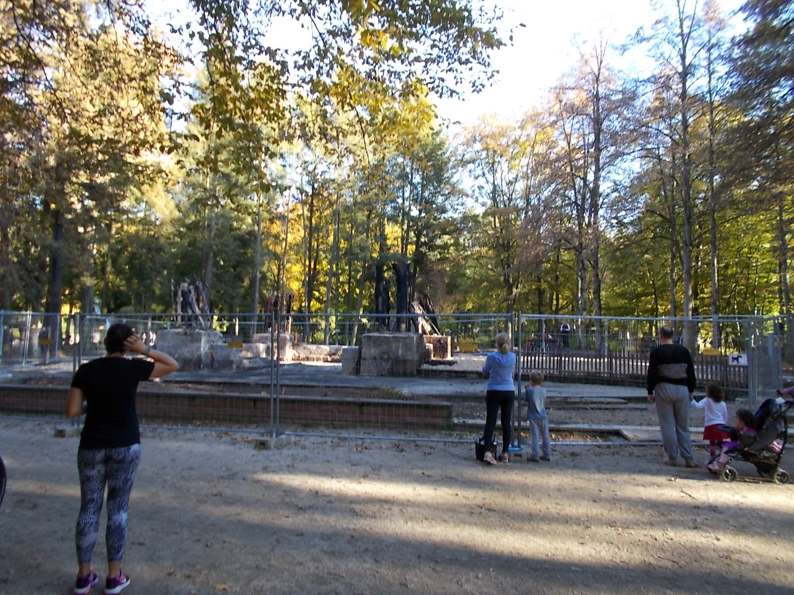 Photo of Goethe Tower after the fire of the 12th of October 2017, Frankfurt am Main, Germany.